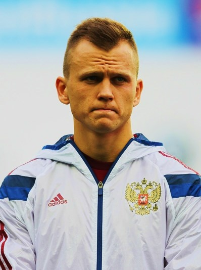 Denis Cheryshev